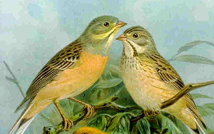 Emberiza hortulana, from English WP, description: ortolan aus: NAUMANN, NATURGESCHICHTE DER VÖGEL MITTELEUROPAS: Band III, Tafel 22 - Gera, 1900 digitale Bearbeitung : Peter v. Sengbusch - b-online